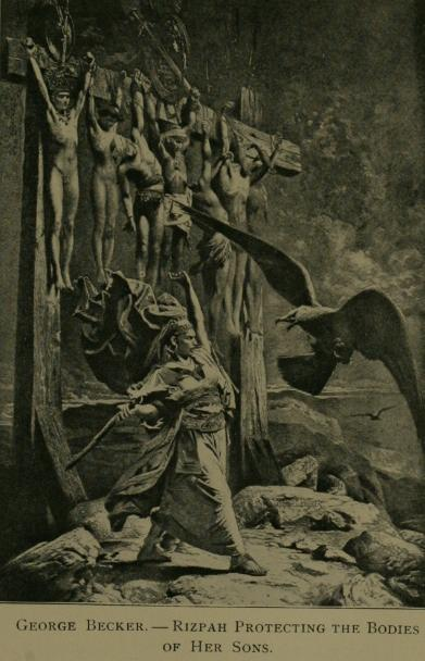 Painting of a Biblical scene